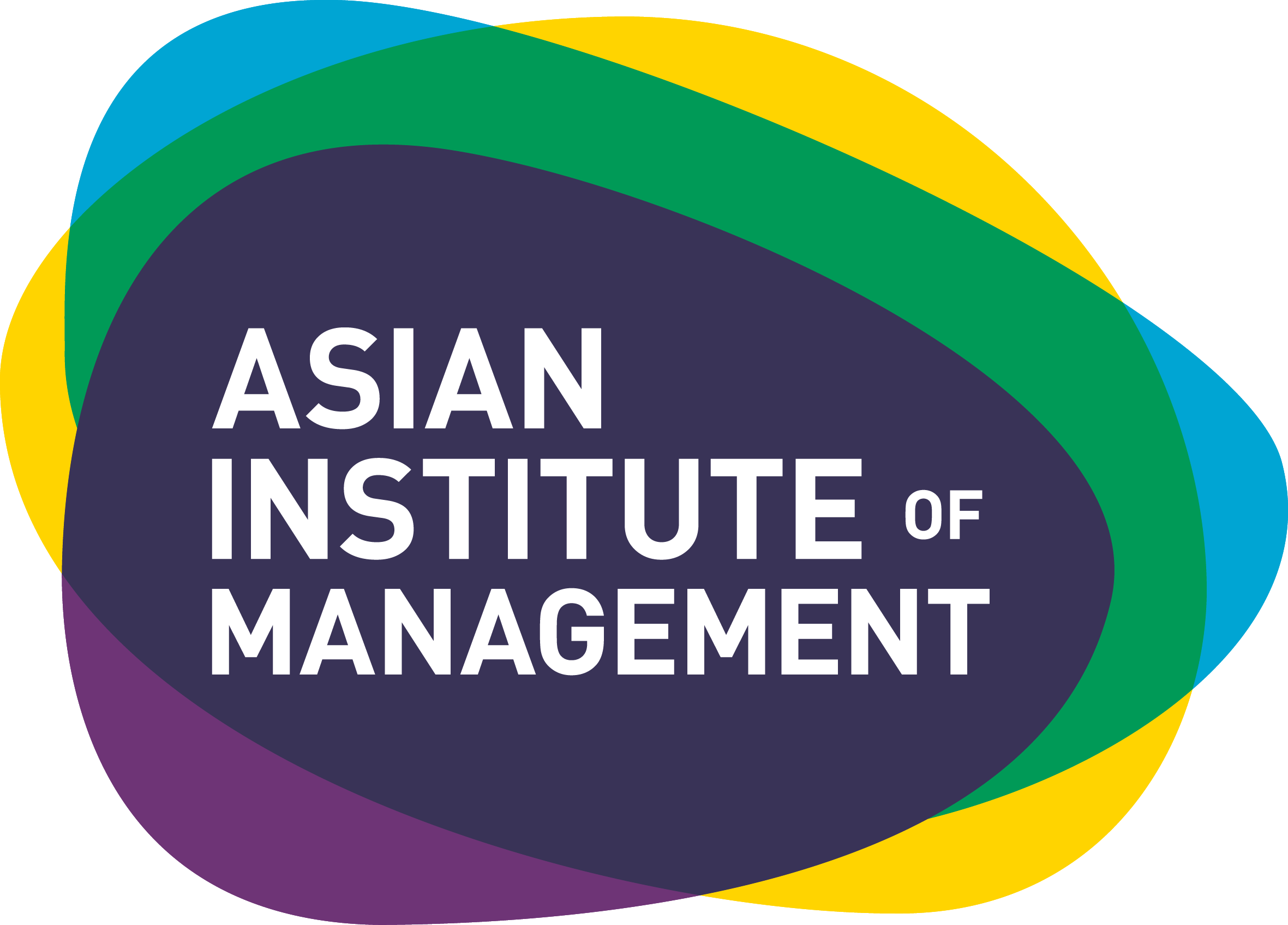 Logo of the Asian Institute of Management